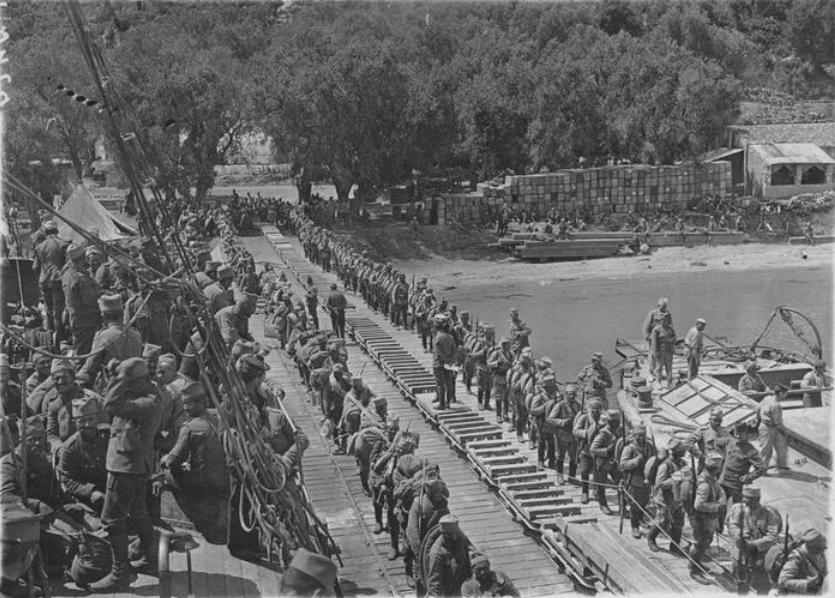 Serb soldiers ride on French ships to be transported to Salonika and join the Eastern Army. Spring 1916.